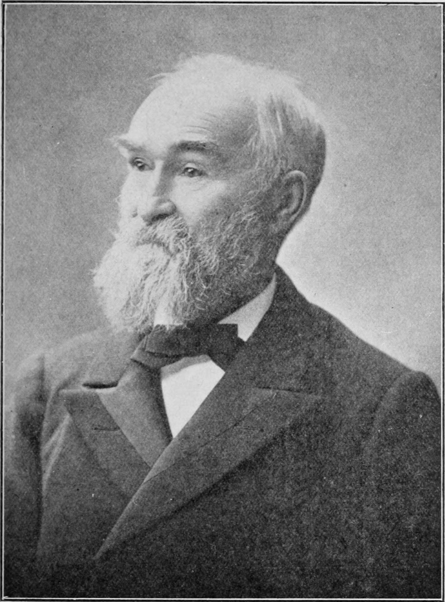 Prof. John Macoun, Dominion Naturalist